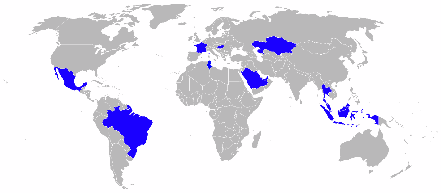 Eurocopter EC 725 Operators 2010 (current in blue - former in red)